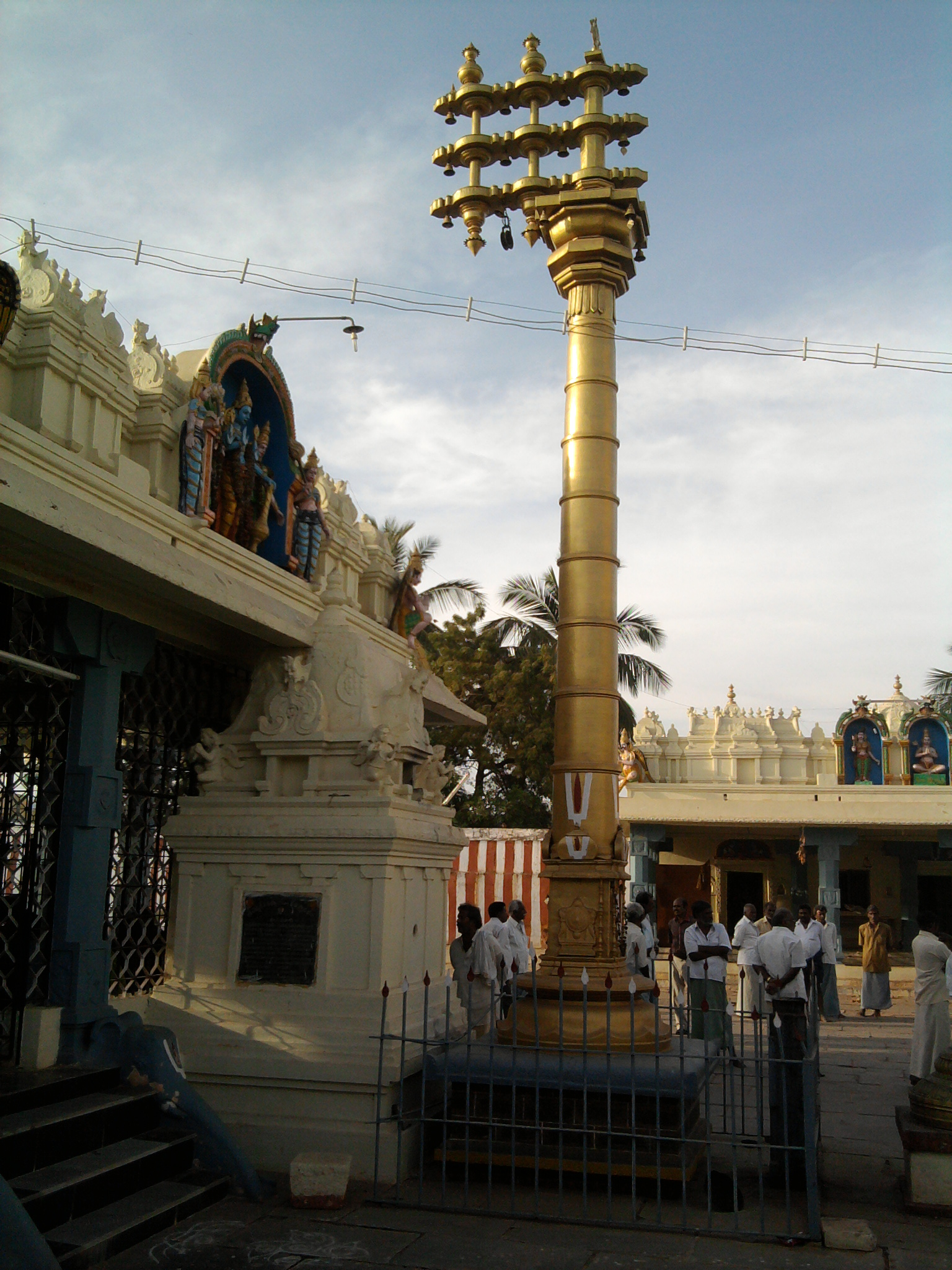 Sri Chennakesava Swami Temple, Vinjamur